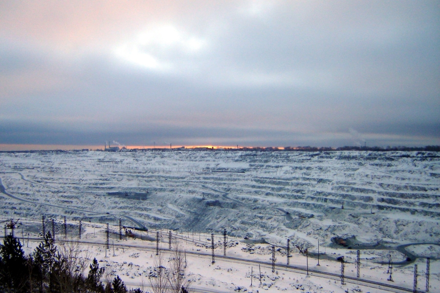 Asbest mine in Asbest city, Ural